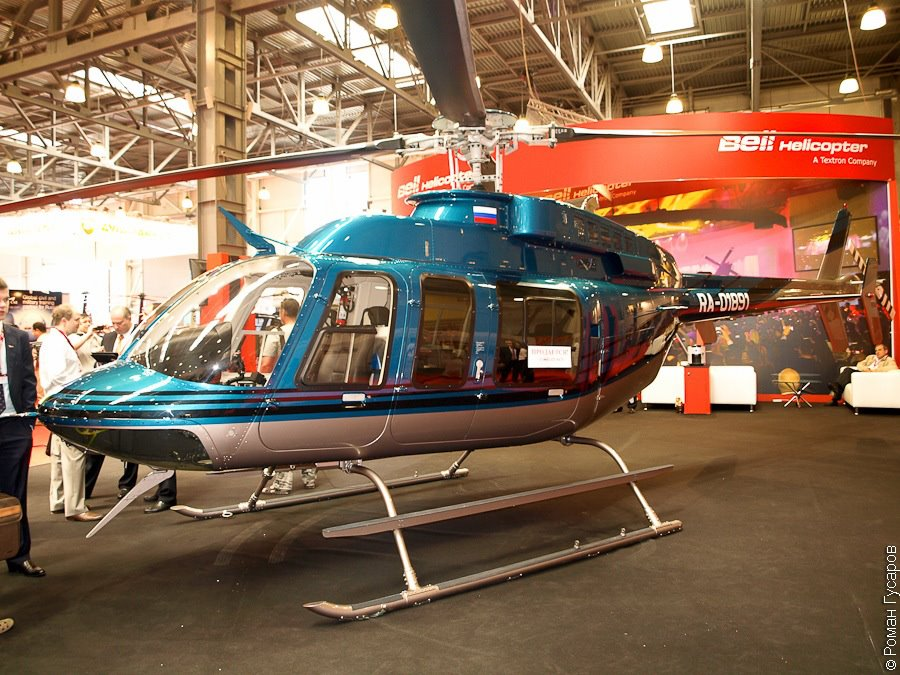 Bell 407 at Heli Russia